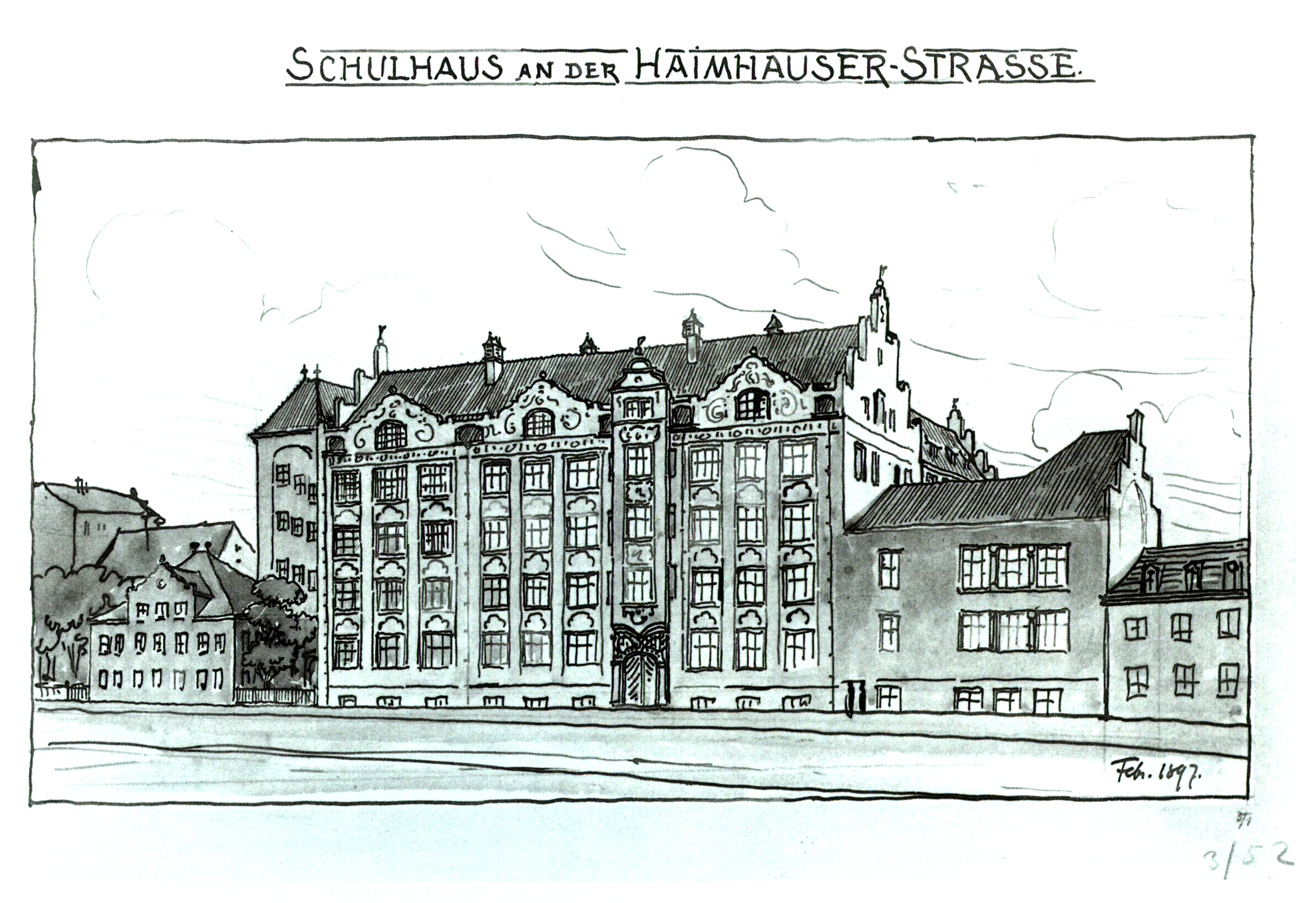 architectural drawing by Theodor Fischer. The drawing shows his design for a school in the Haimhauser Straße, Munich, Germany